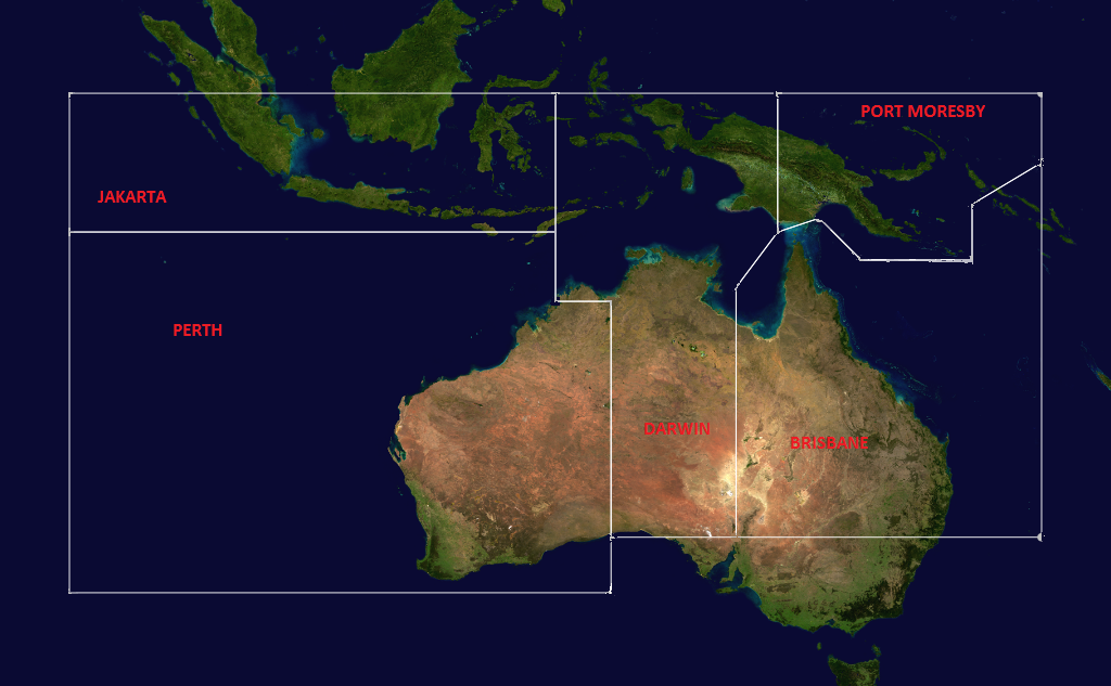 Map of the Australian tropcial cyclone warning centers based on Page 18 of